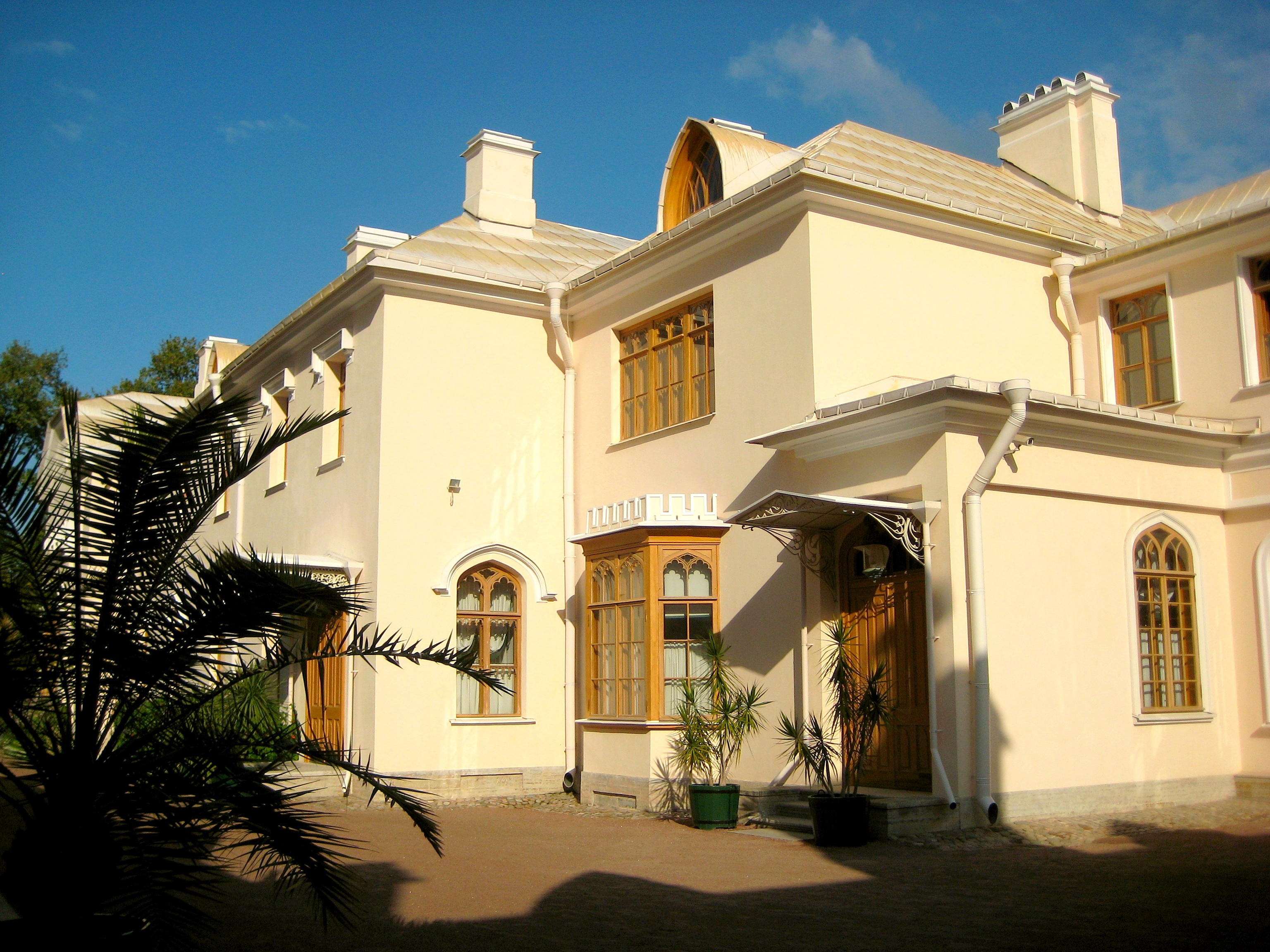 Farm Palace: Alexandria Park, Peterhof, Petrodvortsovy District, St. Petersburg.